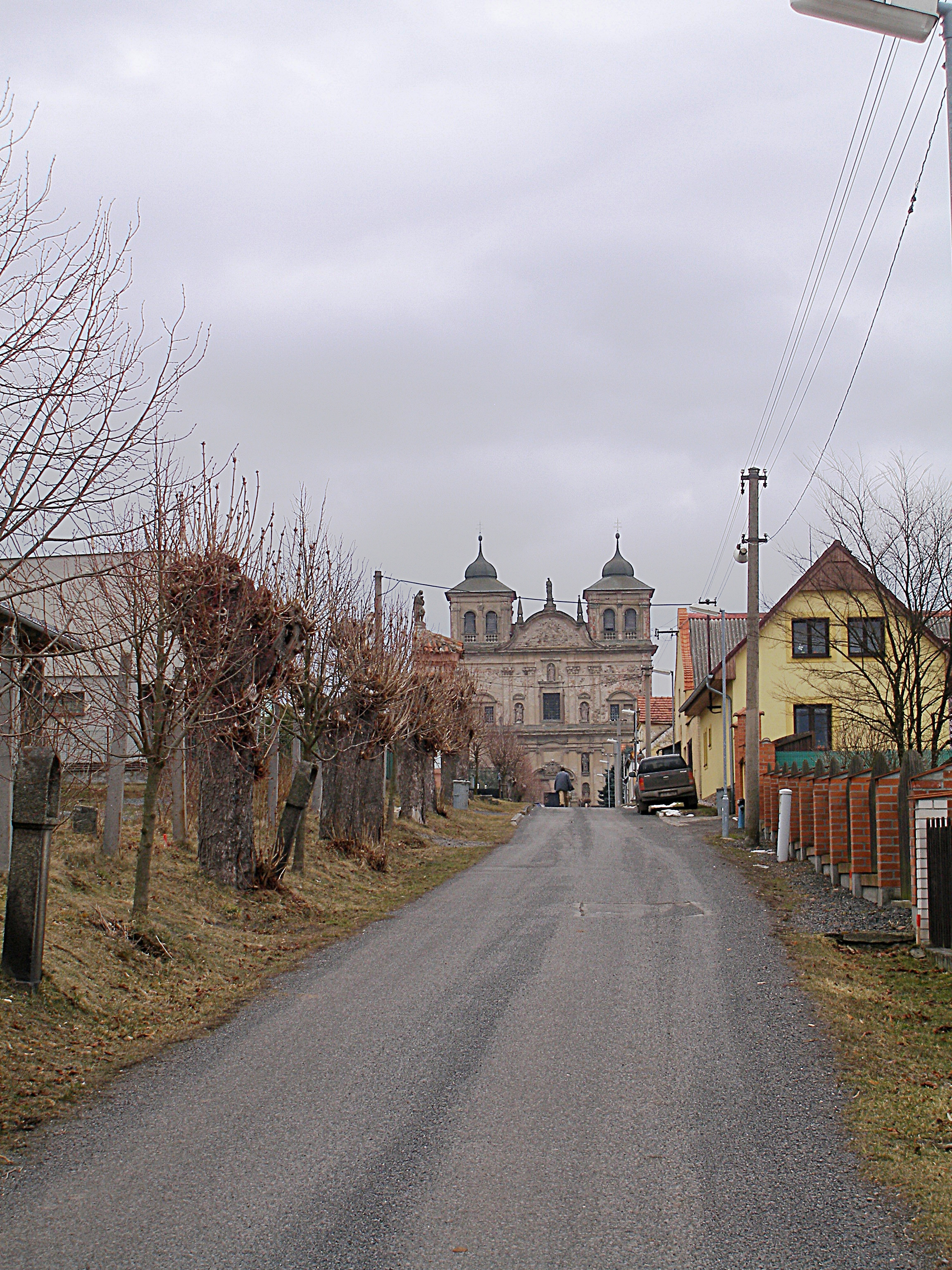 Chyše - the path to Spitzberg